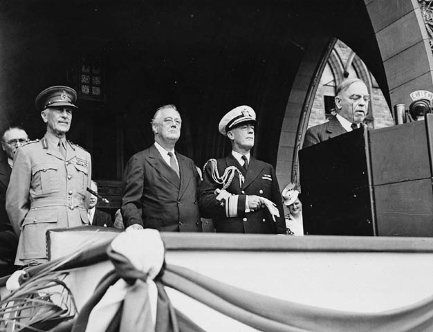 (L-R): The Earl of Athlone, Governor General of Canada; Franklin D. Roosevelt; Rear Admiral Brown; Rt. Hon. William Lyon Mackenzie King, Prime Minister of Canada (at podium).